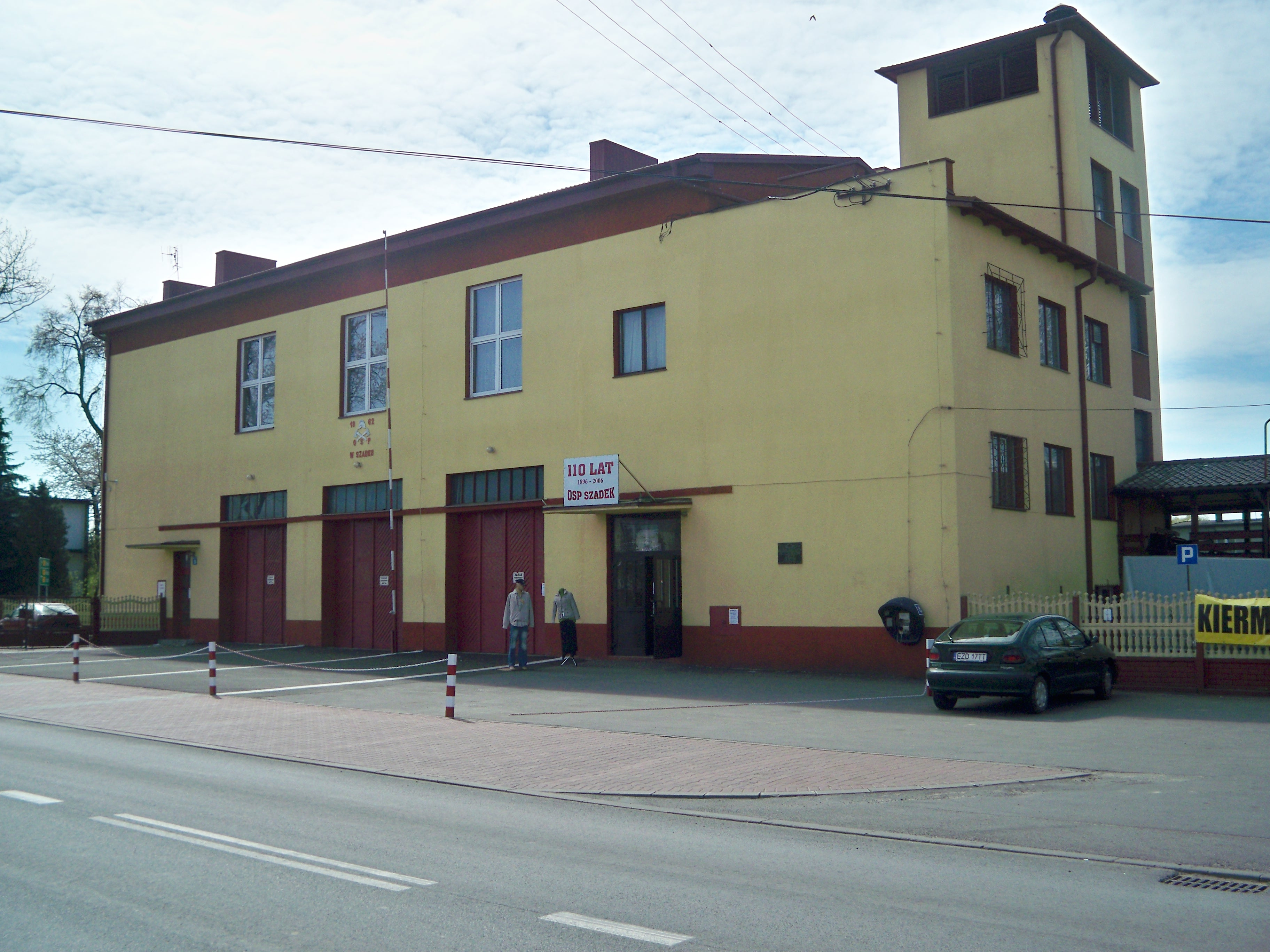 My photo